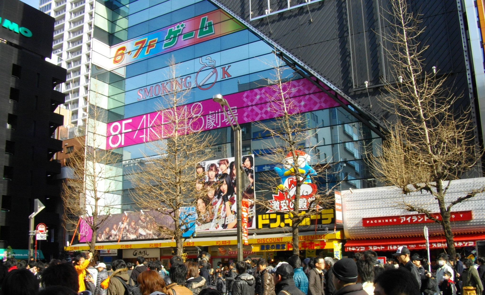 Akihabara Main Street at 1:02 p.m. on Sunday 23 January 2011